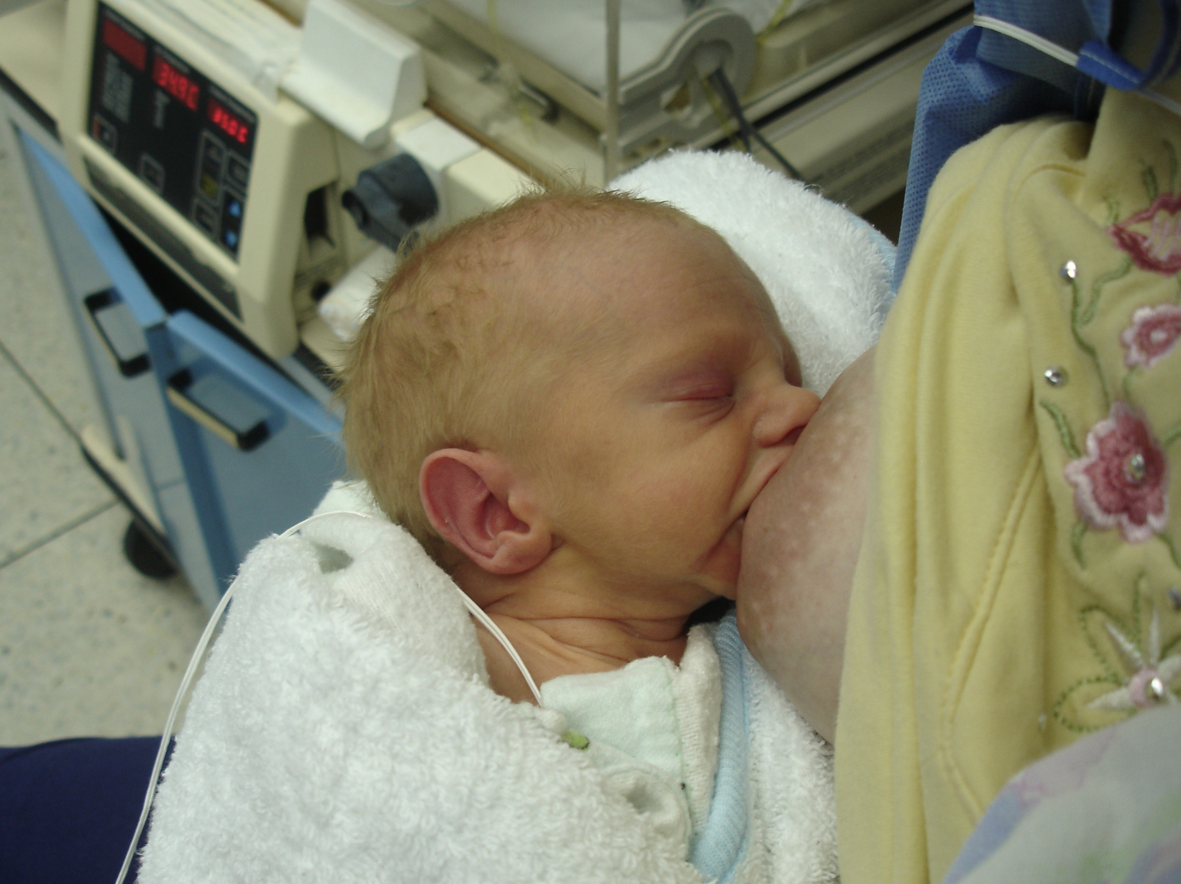 Moderately premature infant, three days old, breastfeeding.